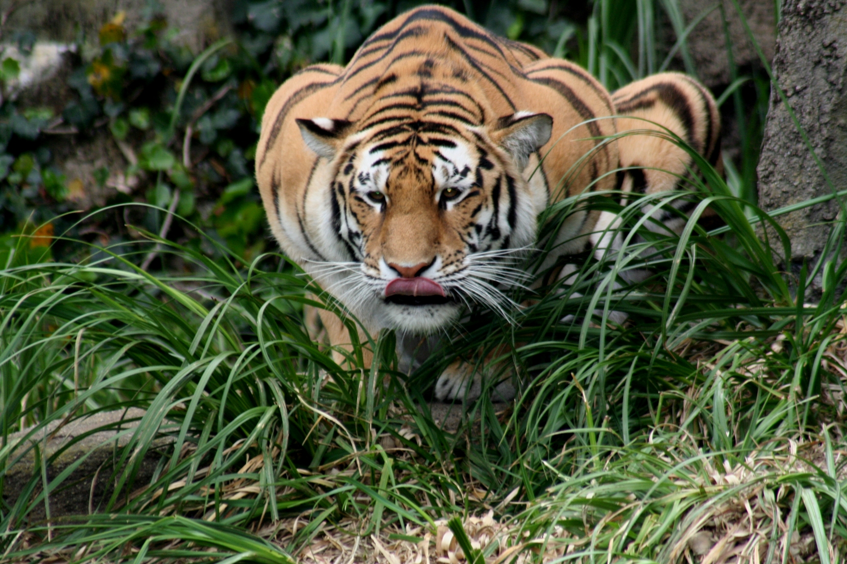 Hunting tiger.